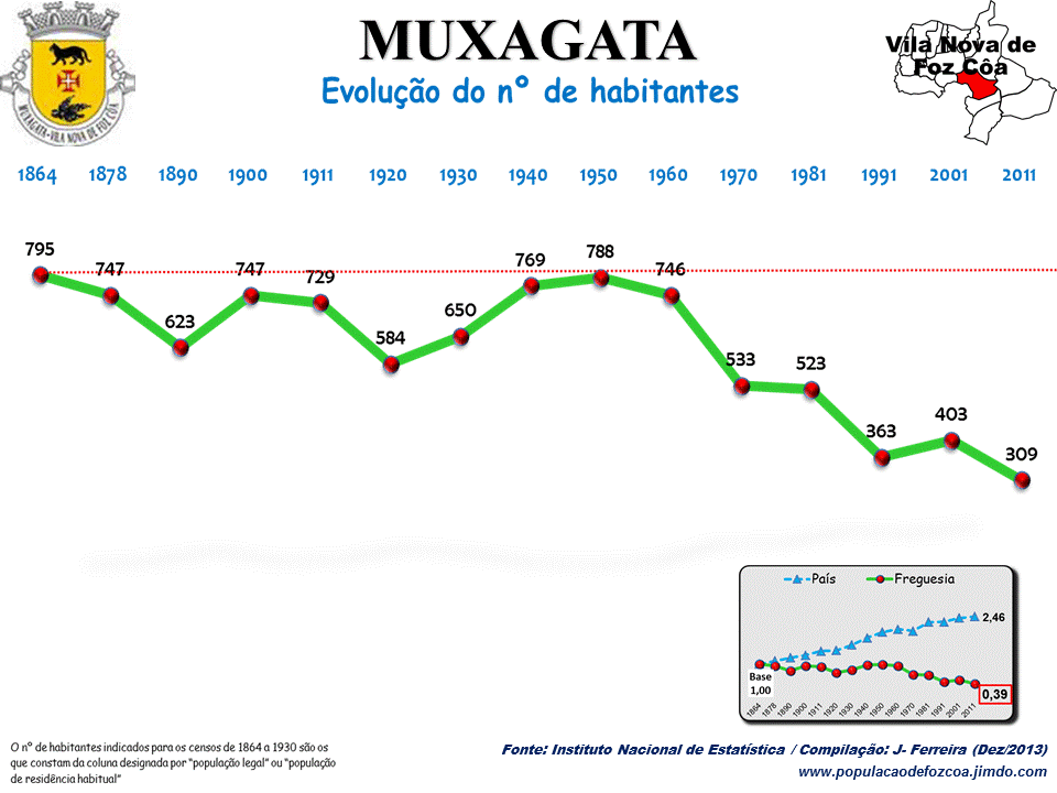 Evolução da População 1864 / 2011